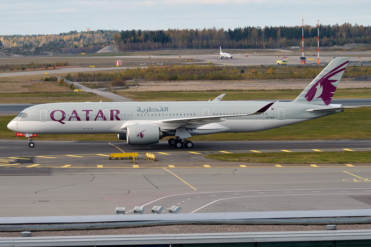 Qatar Airways, A7-ALK, Airbus A350-941